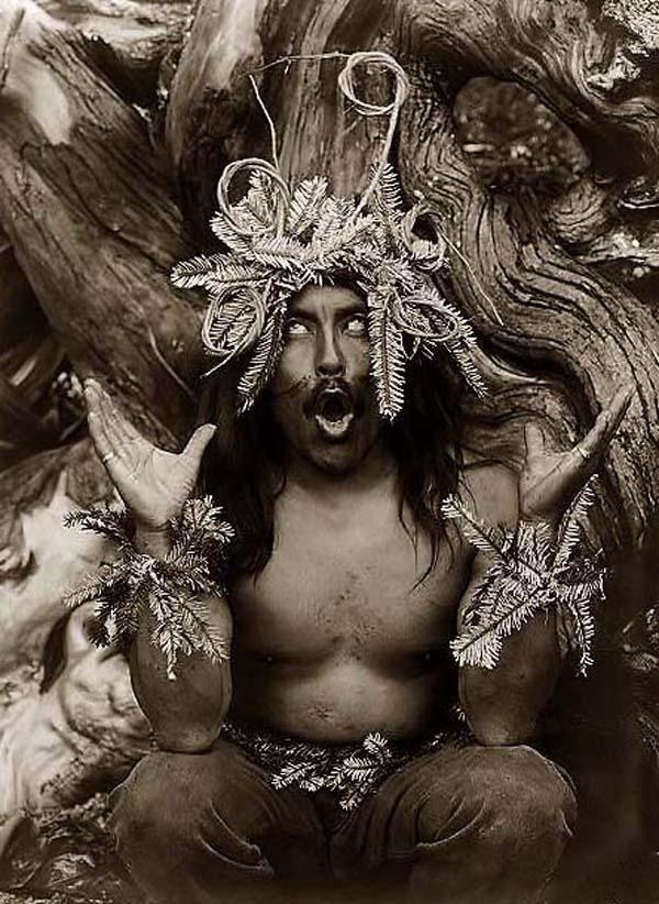 Hamatsa shaman, three-quarter length portrait, seated on ground in front of tree, facing front, possessed by supernatural power after having spent several days in the woods as part of an initiation ritual.